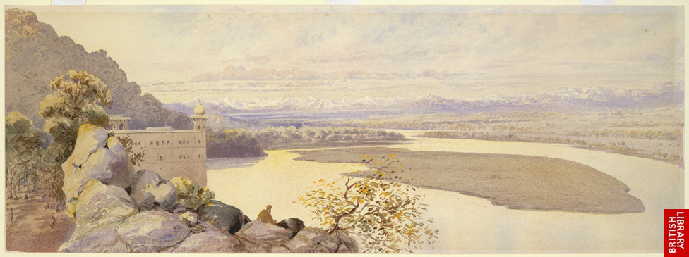 Head of the Ganges Canal, Hardwar, c1876. Water-colour painting showing the head of the Ganges Canal at Haridwar in Uttar Pradesh (Now Uttarakhand), by Sir Richard Hieram Sankey (1829-1908), c.1876. Haridwar, situated in the foothills of the Himalayas is the first major town on the River Ganges at the point where the river flows onto the plains. The town has always been a major pilgrimage site for Hindus as it is seen to be blessed by the trinity of Lord Shiva, Vishnu and Brahma. The Ganges here is quite calm and clear and the many bathing ghats are always full of people performing their ablutions. The main bathing ghat at Haridwar is Hari-ki-Pari which reputedly contains a footprint of Lord Vishnu embedded in a stone. The Ganges Canal was completed in 1854.